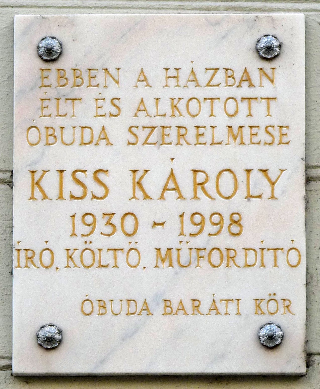 Károly Kiss (poet) commemorative plaque in Budapest District III, Lajos Street No 116